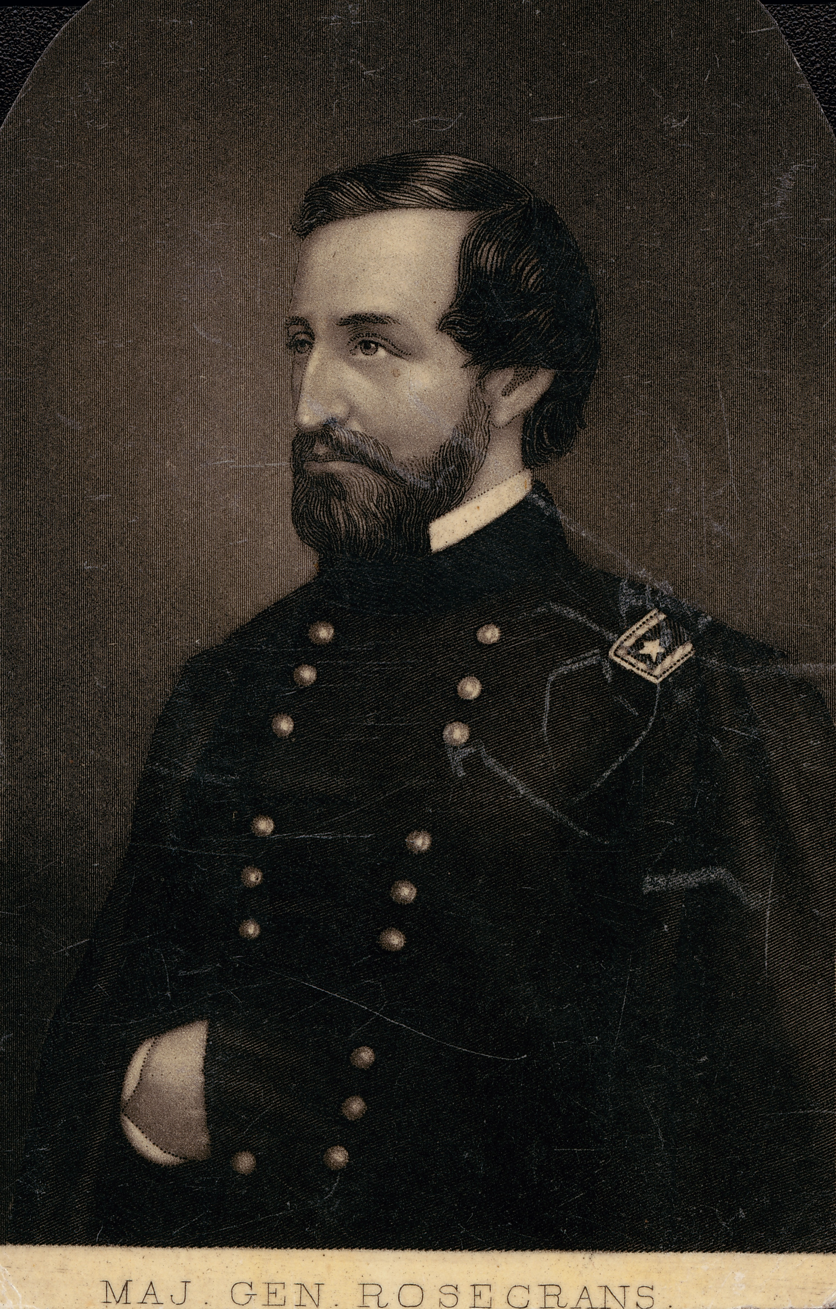 Bust portrait of a man in uniform. "MAJ. GEN. ROSECRANS." (printed below image). "Gift of Mrs Elizabeth Grafe July 1929." (written on reverse side).Title: William Starke Rosecrans, General.